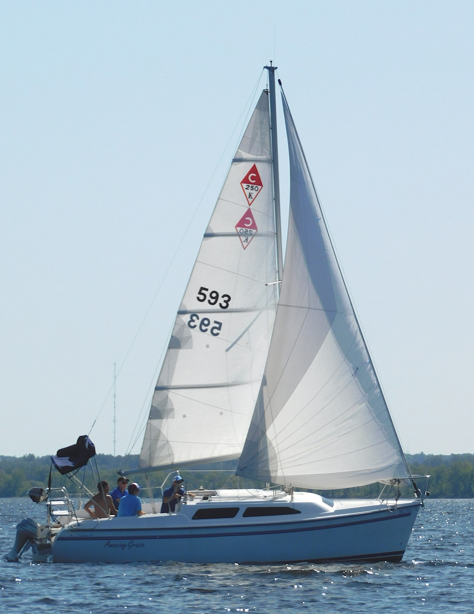 A Catalina 250K sailboat named Amazing Grace.